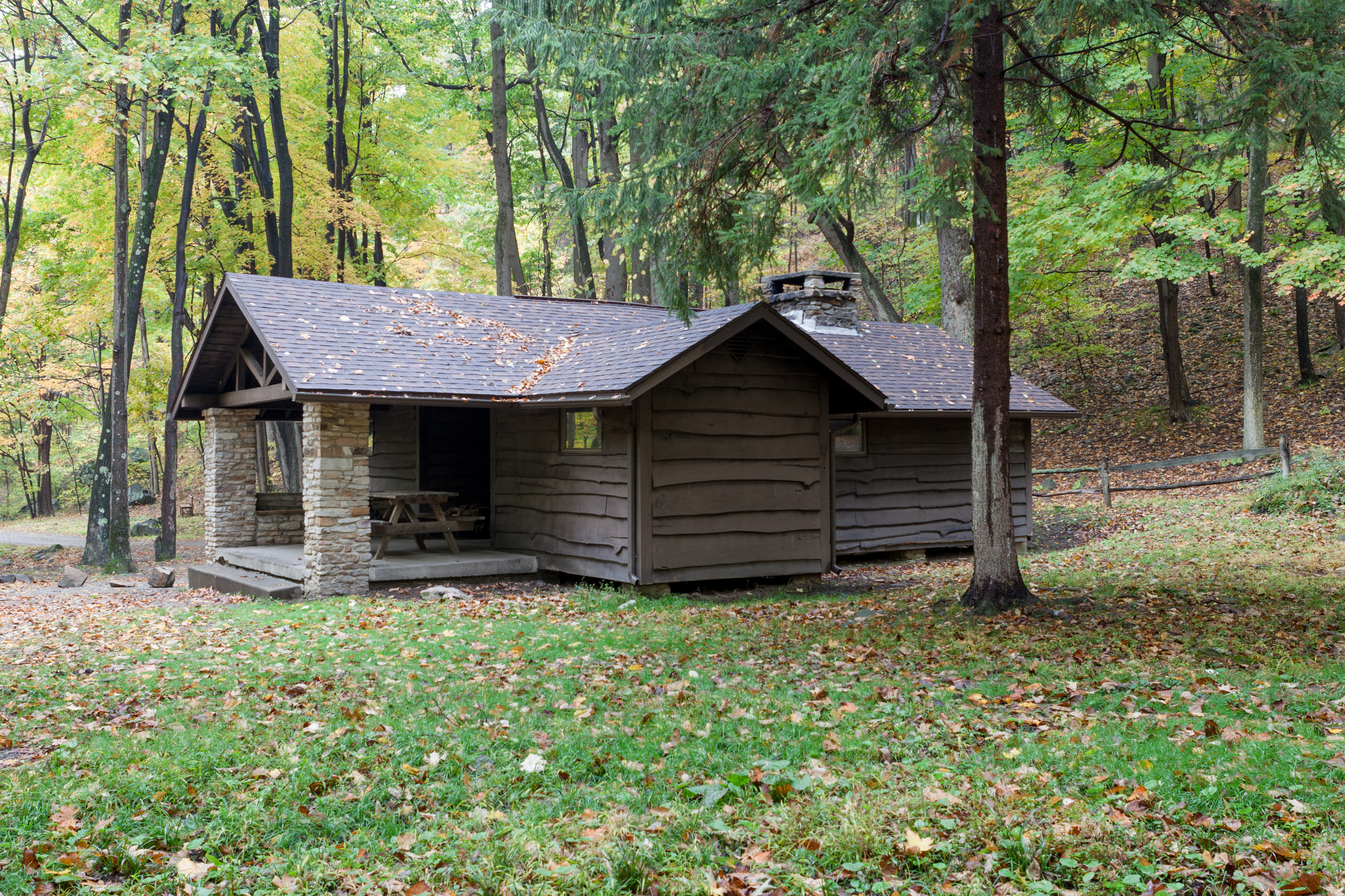 Linn Run State Park Family Cabin District, cabin #10